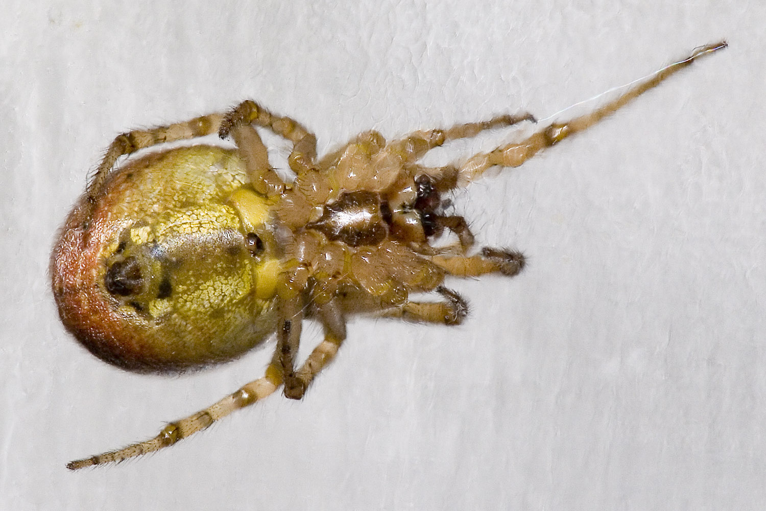 Zygiella atrica, female, Many thanks to Aloysius Staudt from for determination!